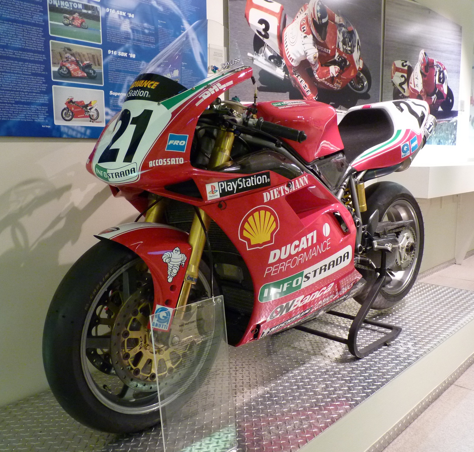 Ducati 996 Factory 2000 used by Australian rider Troy Bayliss during the 2000 Superbike World Championship season. Bologna, Museo Ducati.